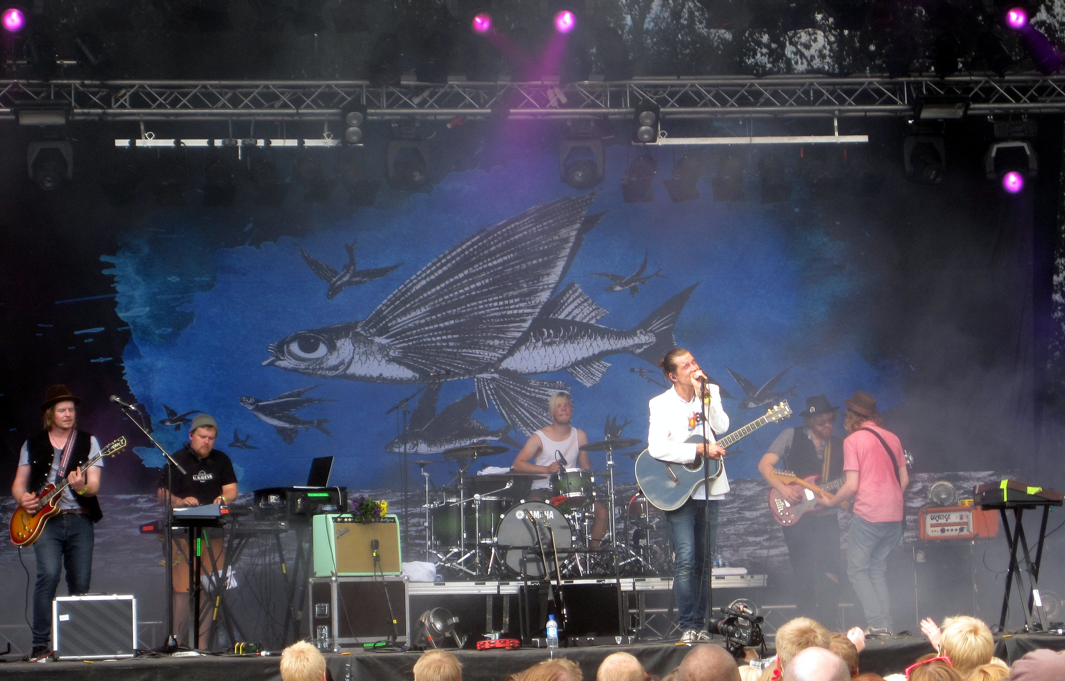 Finnish music group Pariisin Kevät at the Qstock 2012 festival in Oulu.